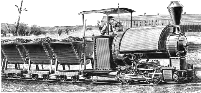 Small industrial or contractor's 0-4-0 saddle tank steam locomotive and train of side-tipping wagons